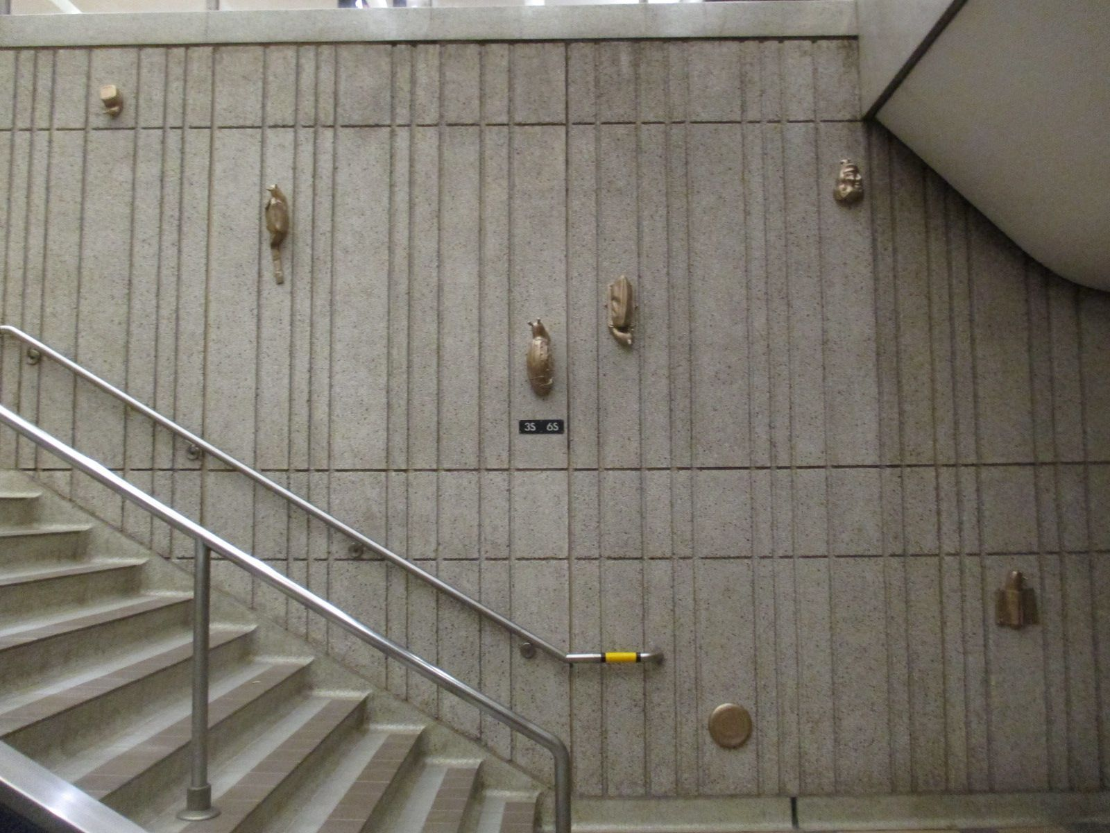 The The Commuters by Rhonda Weppler and Trevor Mahovsky depicts large snails clinging to the walls of a staircase at St. Clair West subway station in Toronto.